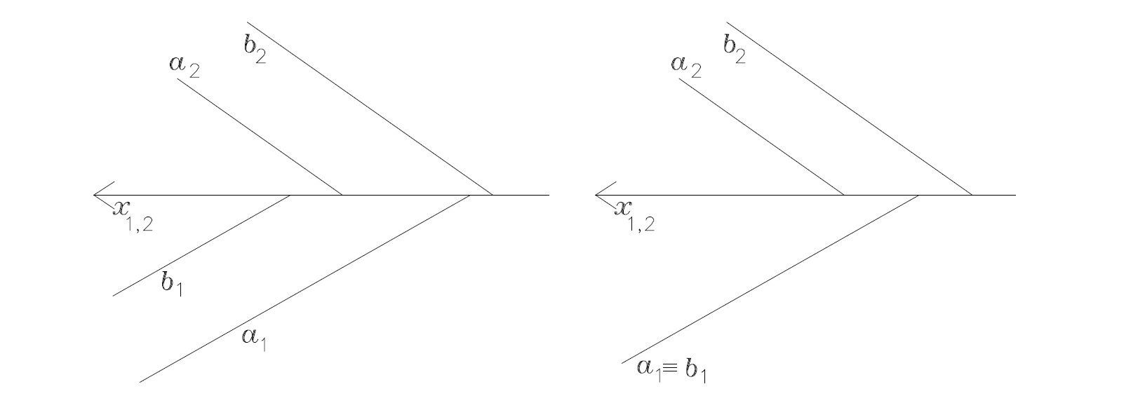 Взаимни положения на две прави2